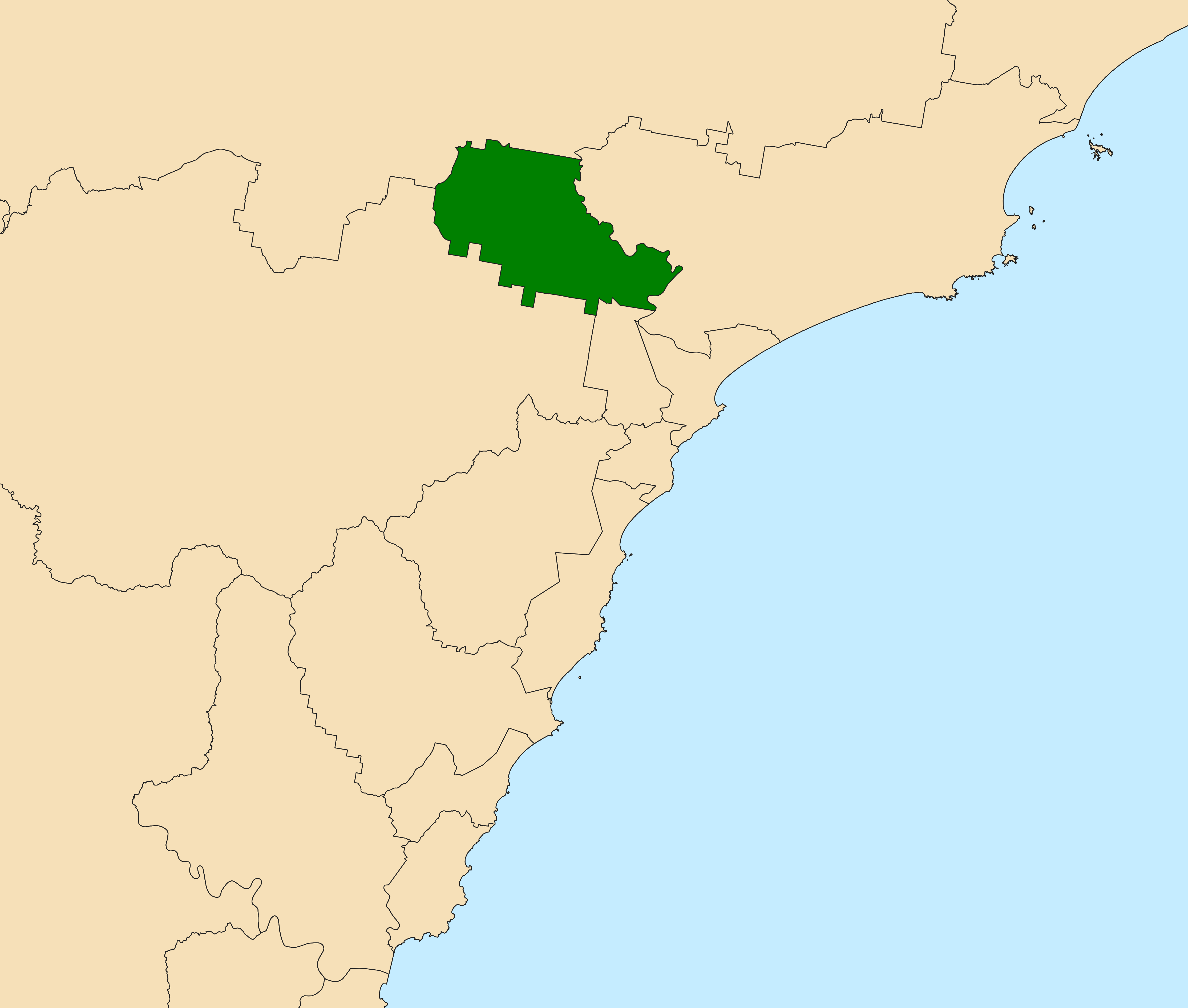 Location of the state electoral district of Maitland (dark green) in the Central Coast region of New South Wales, Australia as of the 2019 New South Wales state election. Incorporates or developed using Administrative Boundaries ©PSMA Australia Limited licensed by the Commonwealth of Australia under Creative Commons Attribution 4.0 International licence (CC BY 4.0).